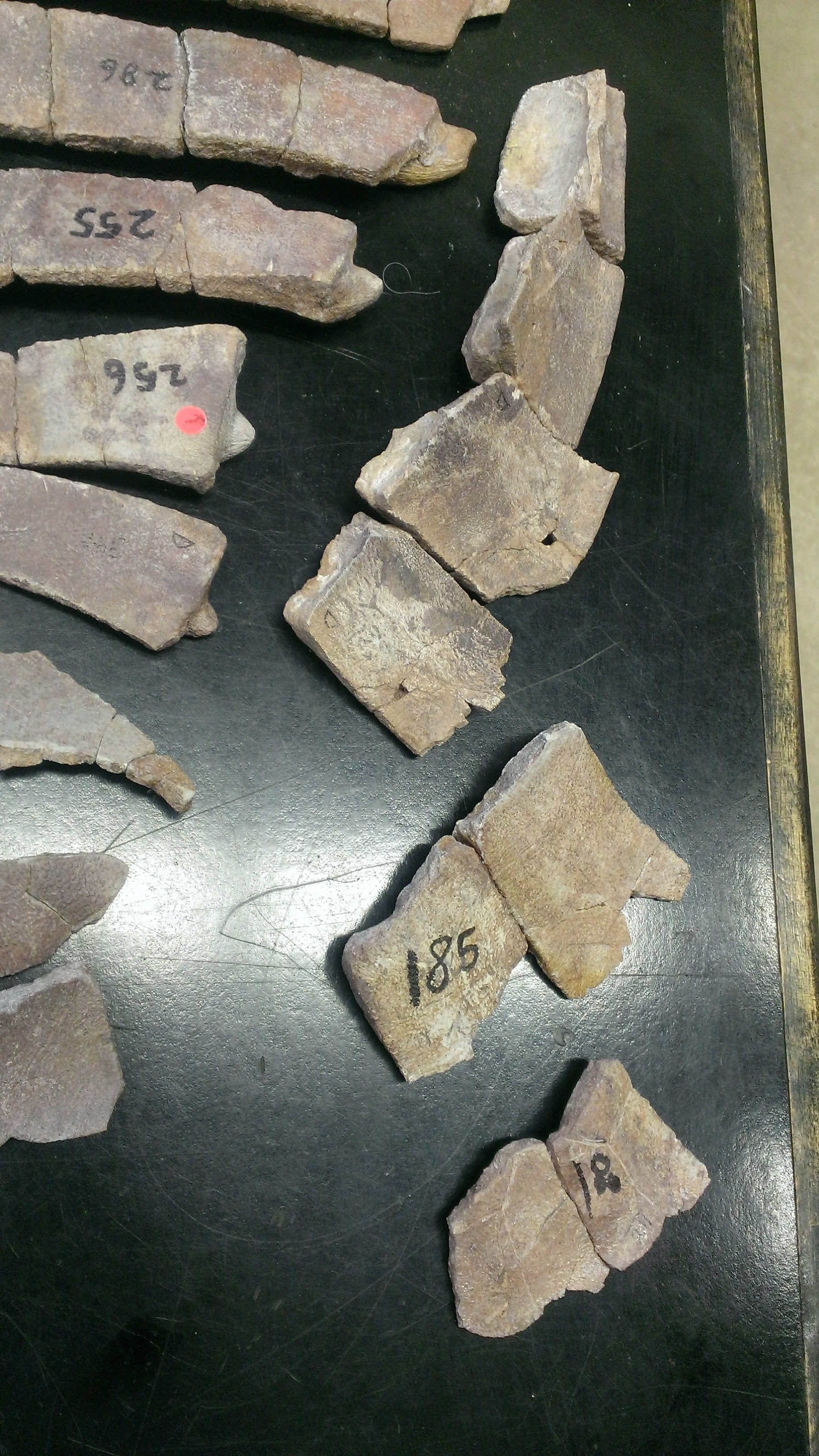 Peripherals